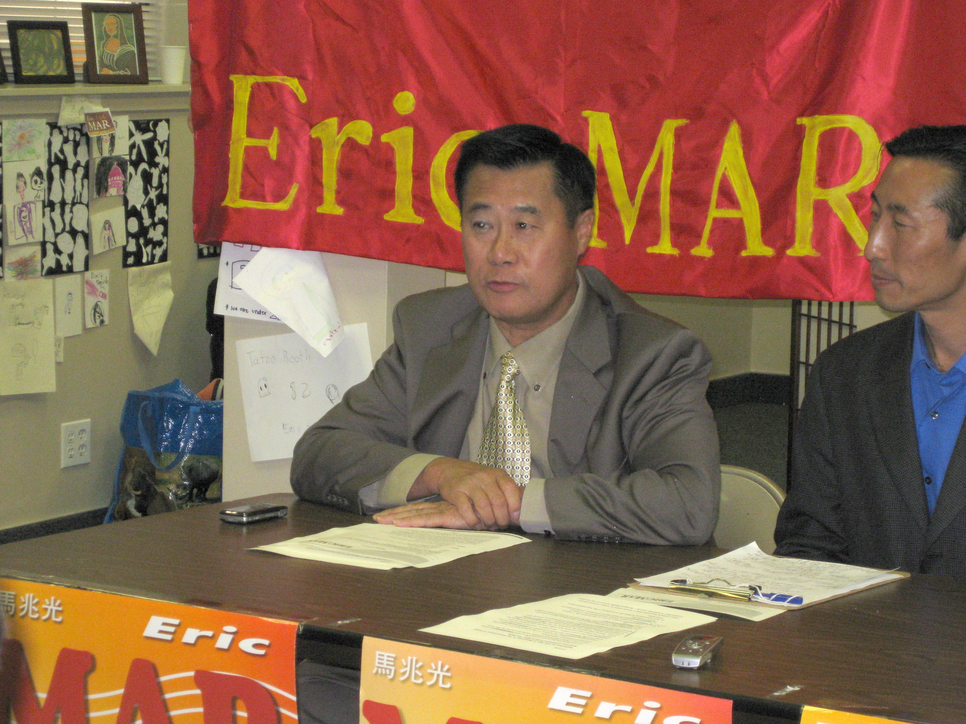 Leland Yee at a press conference for Eric Mar for Supervisor